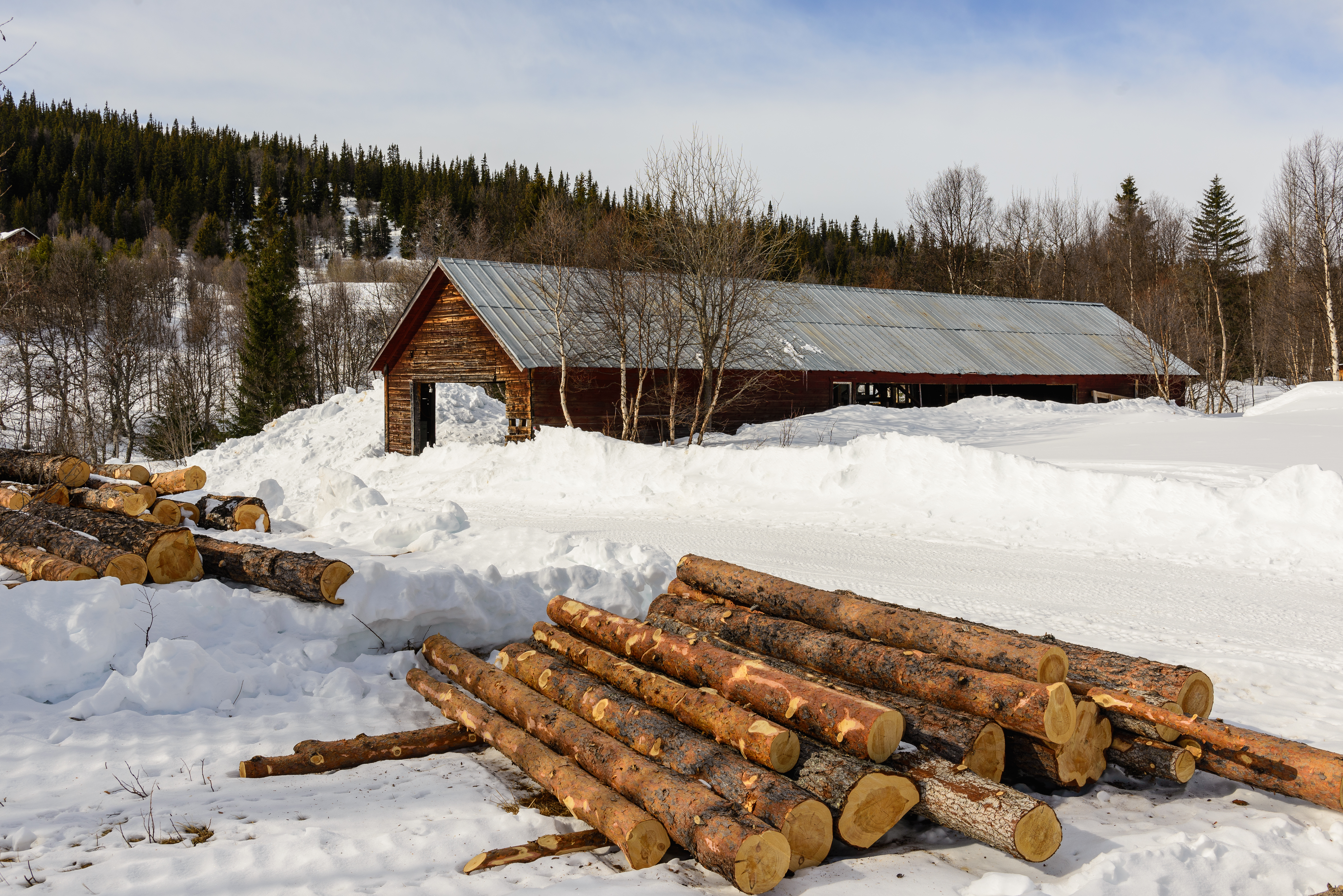 Old local small sawmill in Ljungdalen, a small village in Berg municipality, Härjedalen, Sweden.